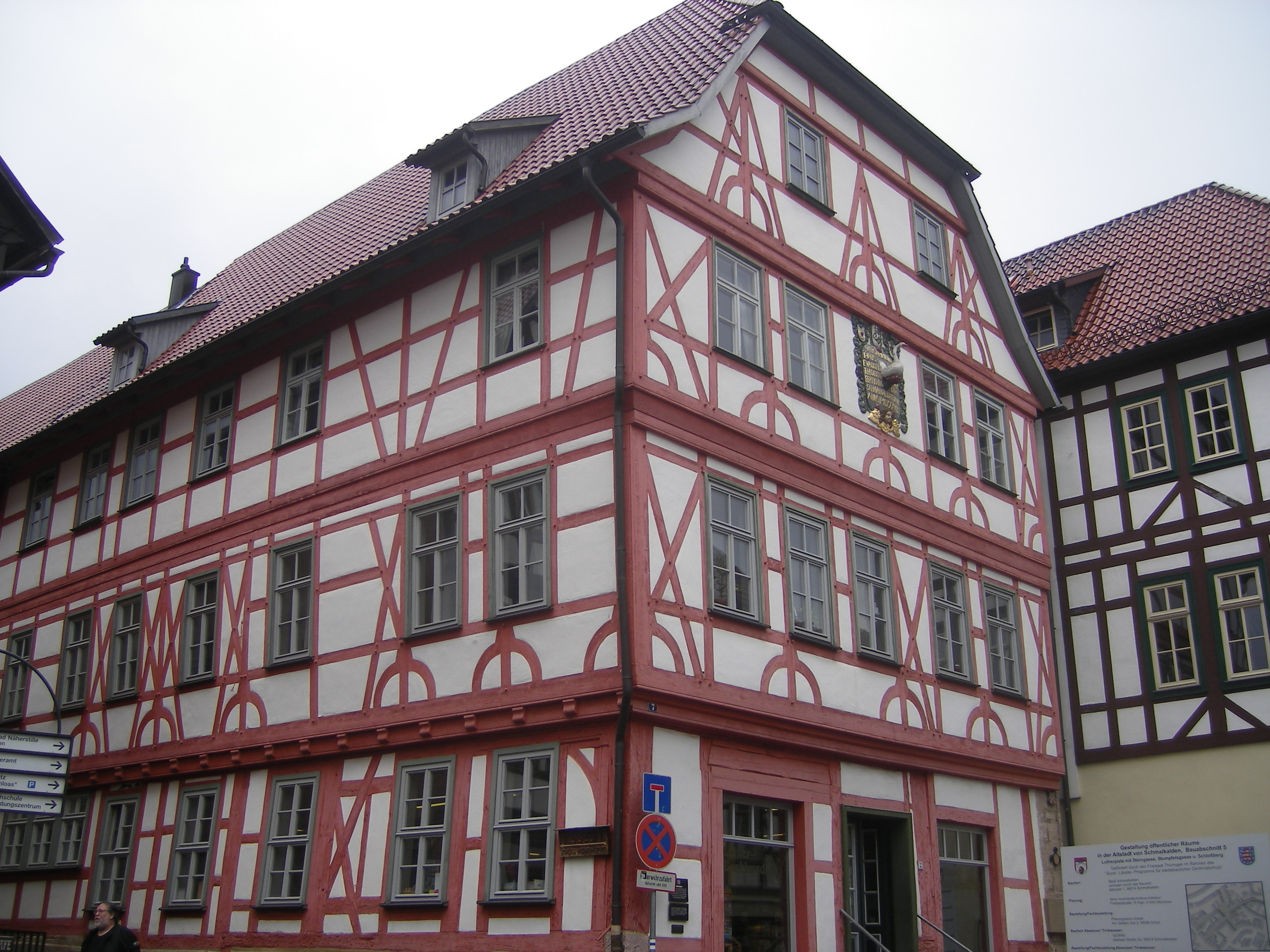 Habitation of the german reformer Martin Luther in 1537 in Schmalkalden/Thuringia